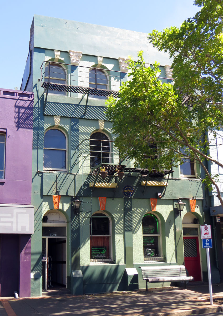 The Empire Hotel, Dunedin, New Zealand